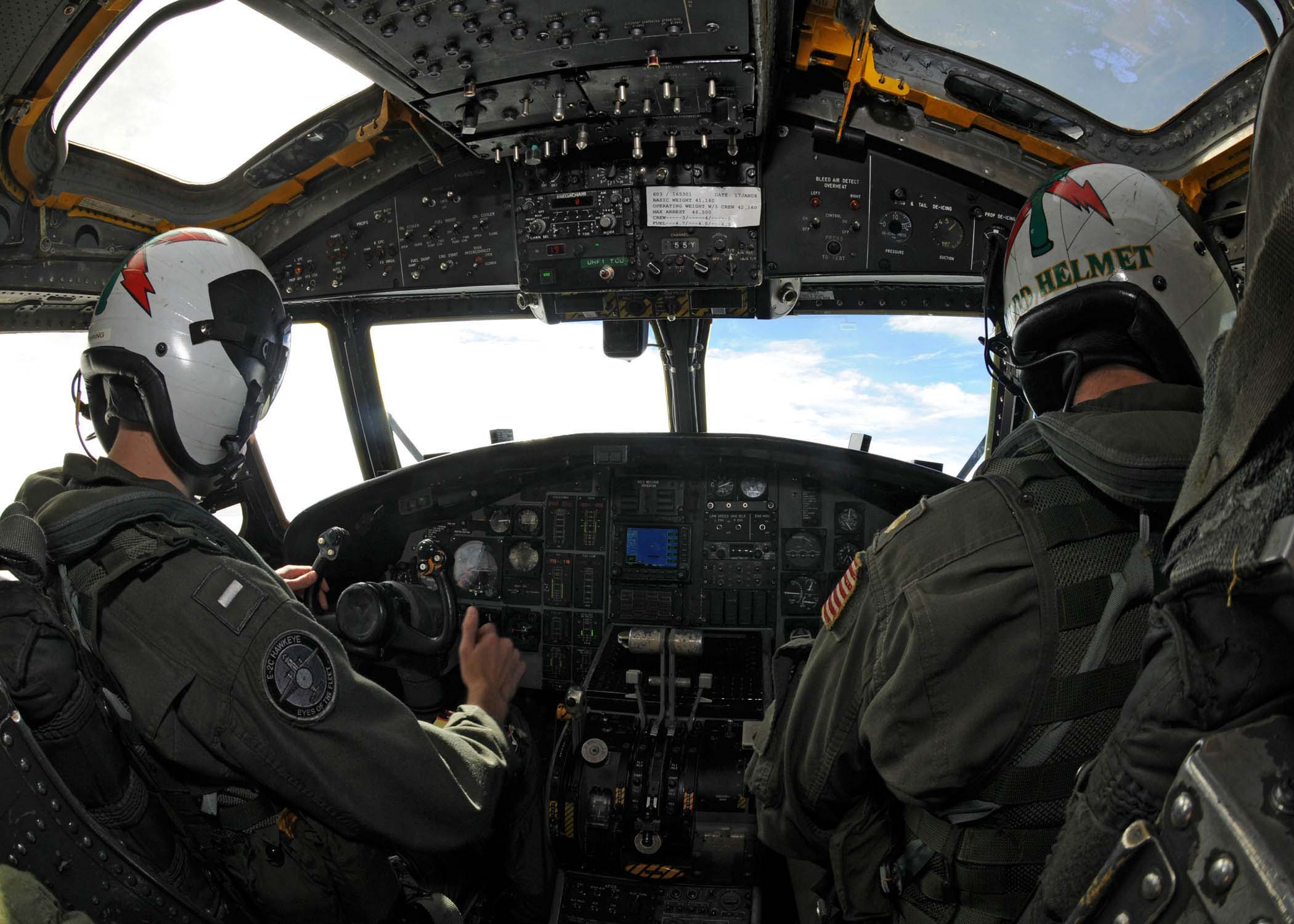 PACIFIC OCEAN (Nov. 11, 2008) Lt. j.g. Doug Fitzpatrick, left, and Lt. Cmdr. Brian Beck, from Airborne Early Warning Squadron (VAW) 115, the "Liberty Bells", assigned to Airborne Early Warning Squadron (VAW) 115, the "Liberty Bells," conduct airborne early warning and strike group coordination from an E-2C Hawkeye between various Carrier Air Wing (CVW) 5 squadrons assigned to the aircraft carrier USS George Washington (CVN 73). (U.S. Navy photo by Mass Communication Specialist 2nd Class Clifford L. H. Davis/Released)